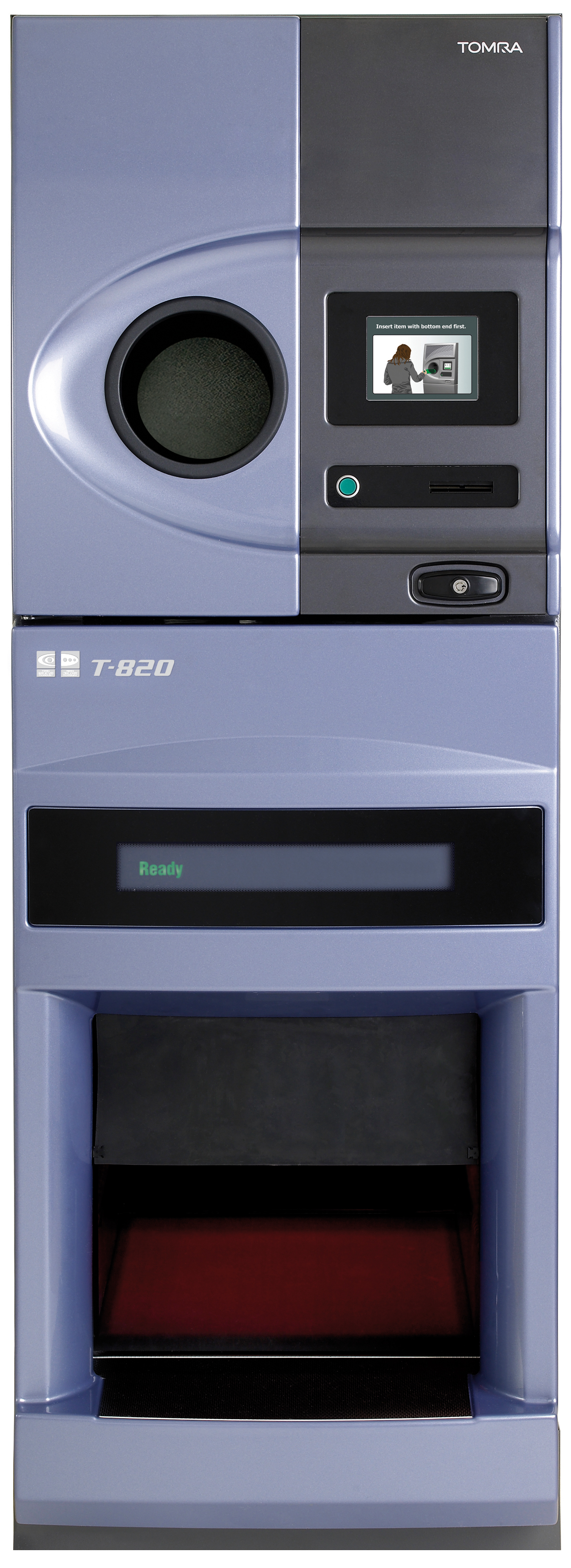 The picture shows a Tomra T-820 BC (Bottle and Crate) RVM (Reverse Vending Machine).